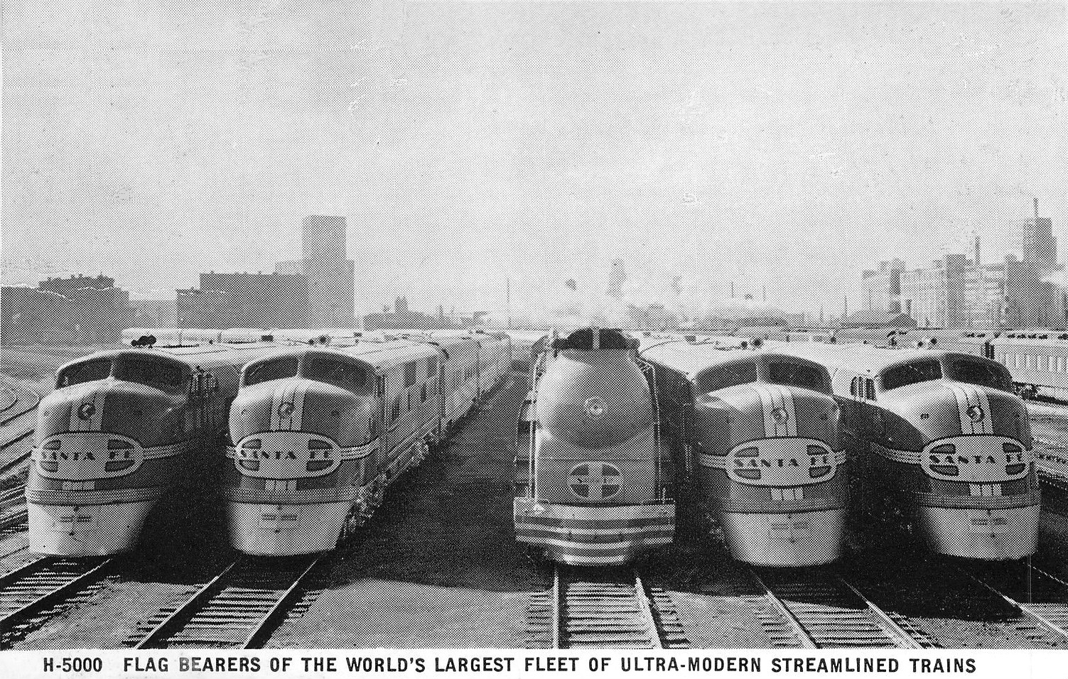 Photo of Santa Fe streamlined locomotives for their major passenger trains. The two diesels at left were for their Super Chief, the two at right for their El Capitan. In the middle is the only streamlined steam locomotive which belonged to the railroad's Chief train.